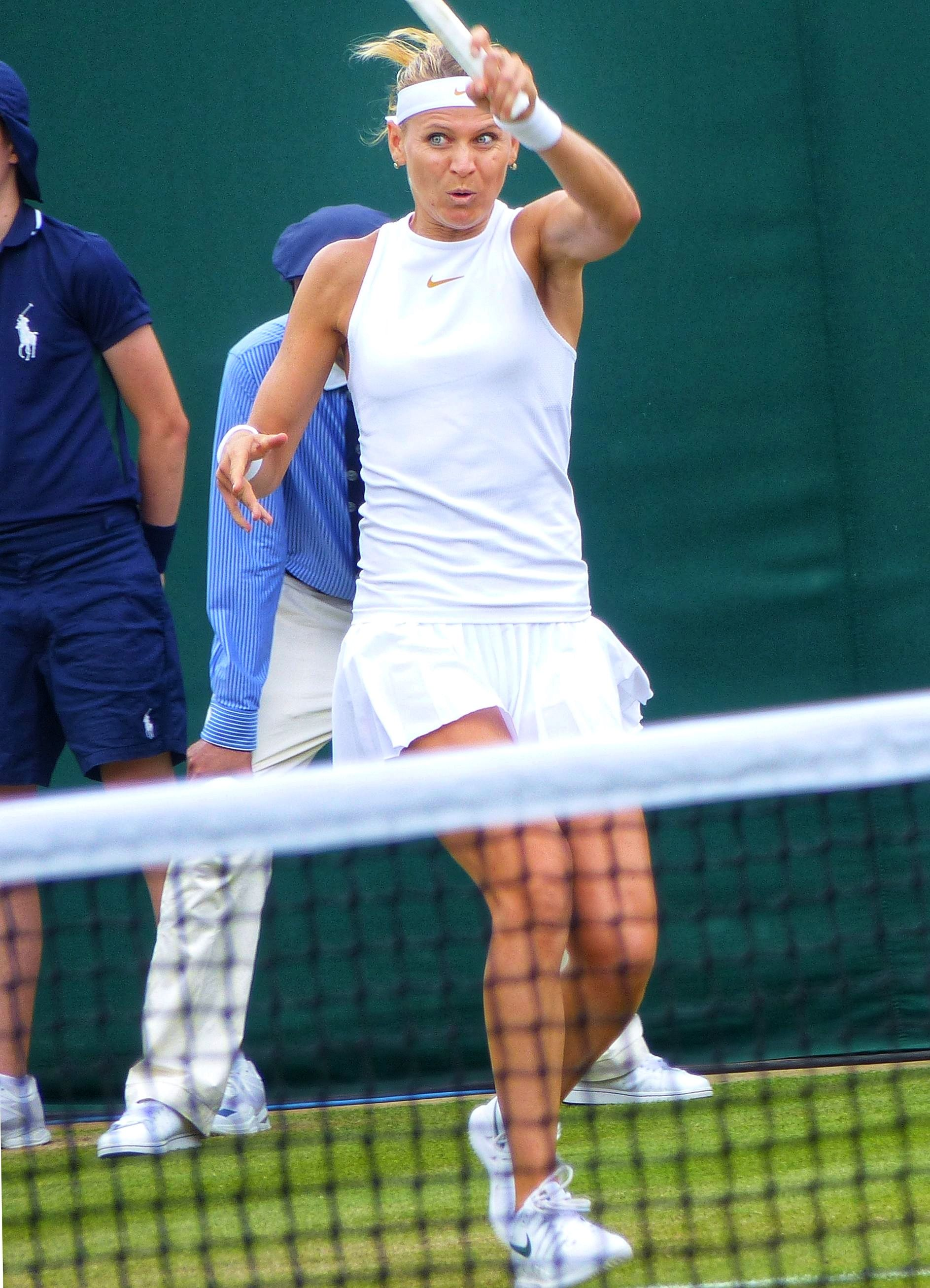 Lucie Šafářová plays at Wimbledon 2018